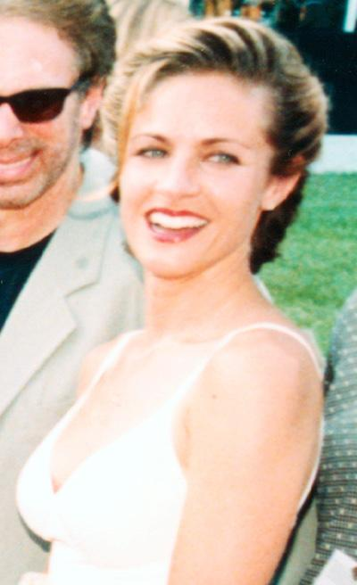 Jessica Steen at the world premiere release of the film "Armageddon"